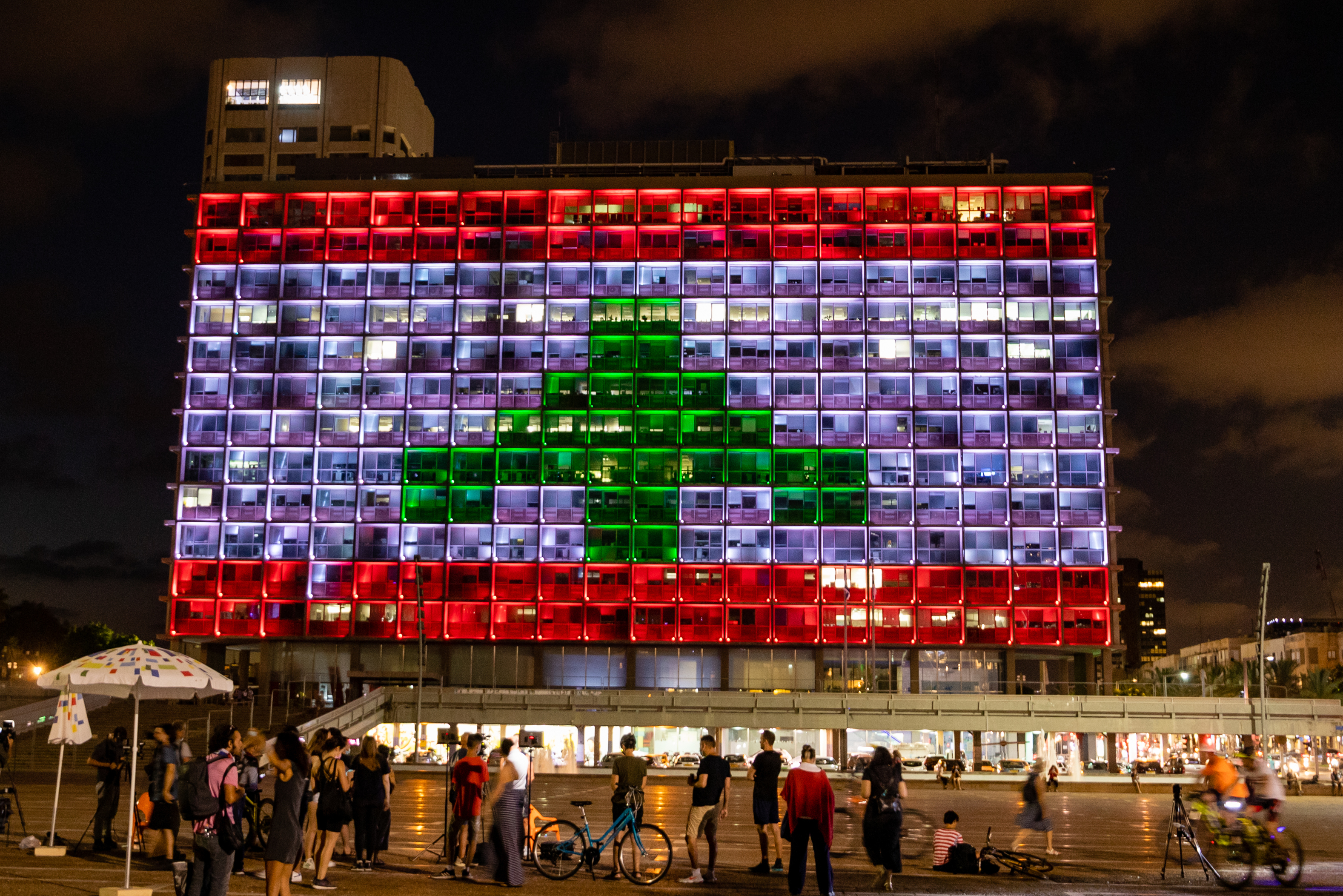 Tel Aviv City Hall illuminated with the Lebanese flag in solidarity with the people of Beirut